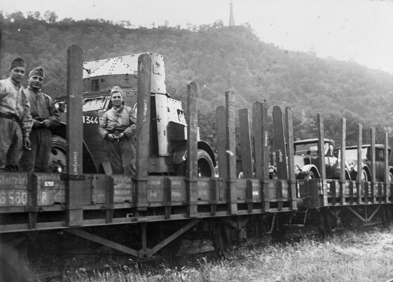 French troops leaving Trier (Germany) in June 1930. A White-Laffly WL-50 armoured car and other vehicles are loaded on a train at Trier-West railway station. St. Mary's column on Marcus' Hill is visible in the background.